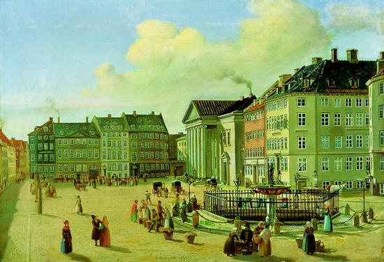 Painting of Nytorv in Copenhagen, Denmark